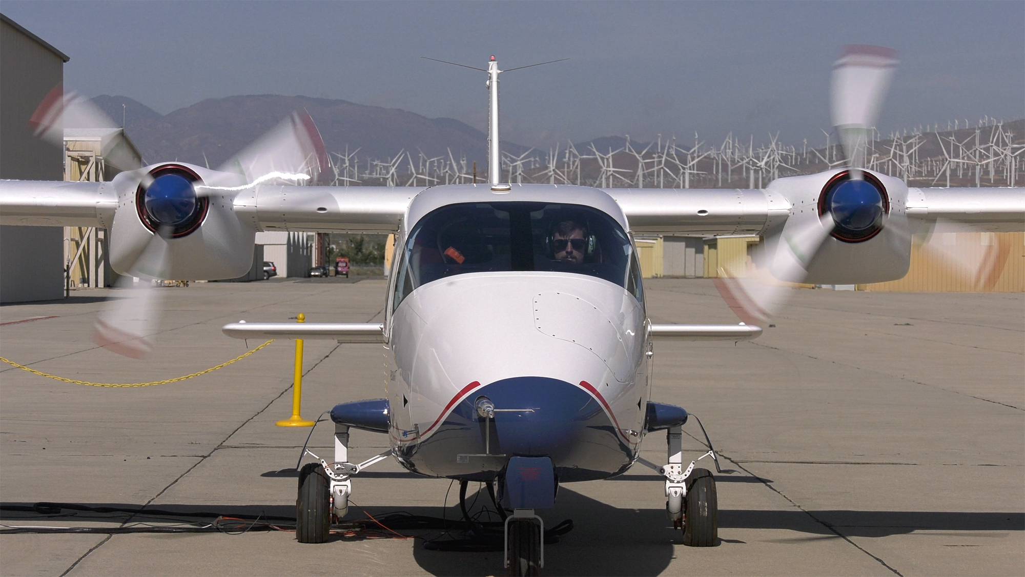 The electric motors for X-57’s Mod II vehicle and their propellers were powered up and spun together for the first time as part of an integrated spin test. Chris Higbee, Project Engineer at Scaled Composites, is seen in the cockpit of the Mod II vehicle.